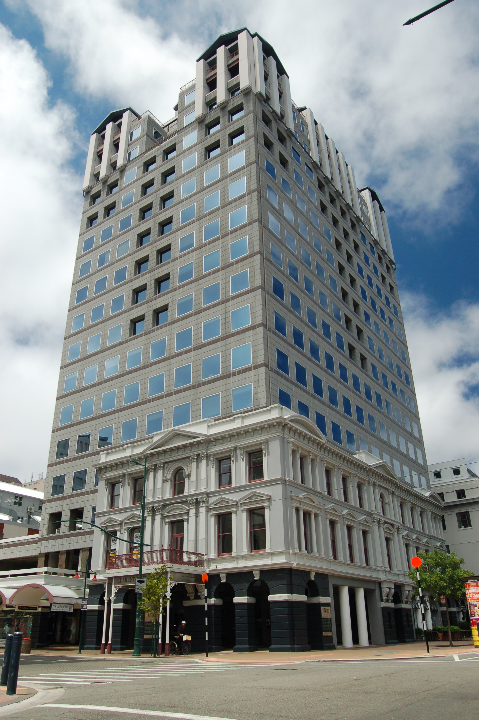 Clarendon Tower on the corner of Oxford Tce and Worcester St in Christchurch, New Zealand.